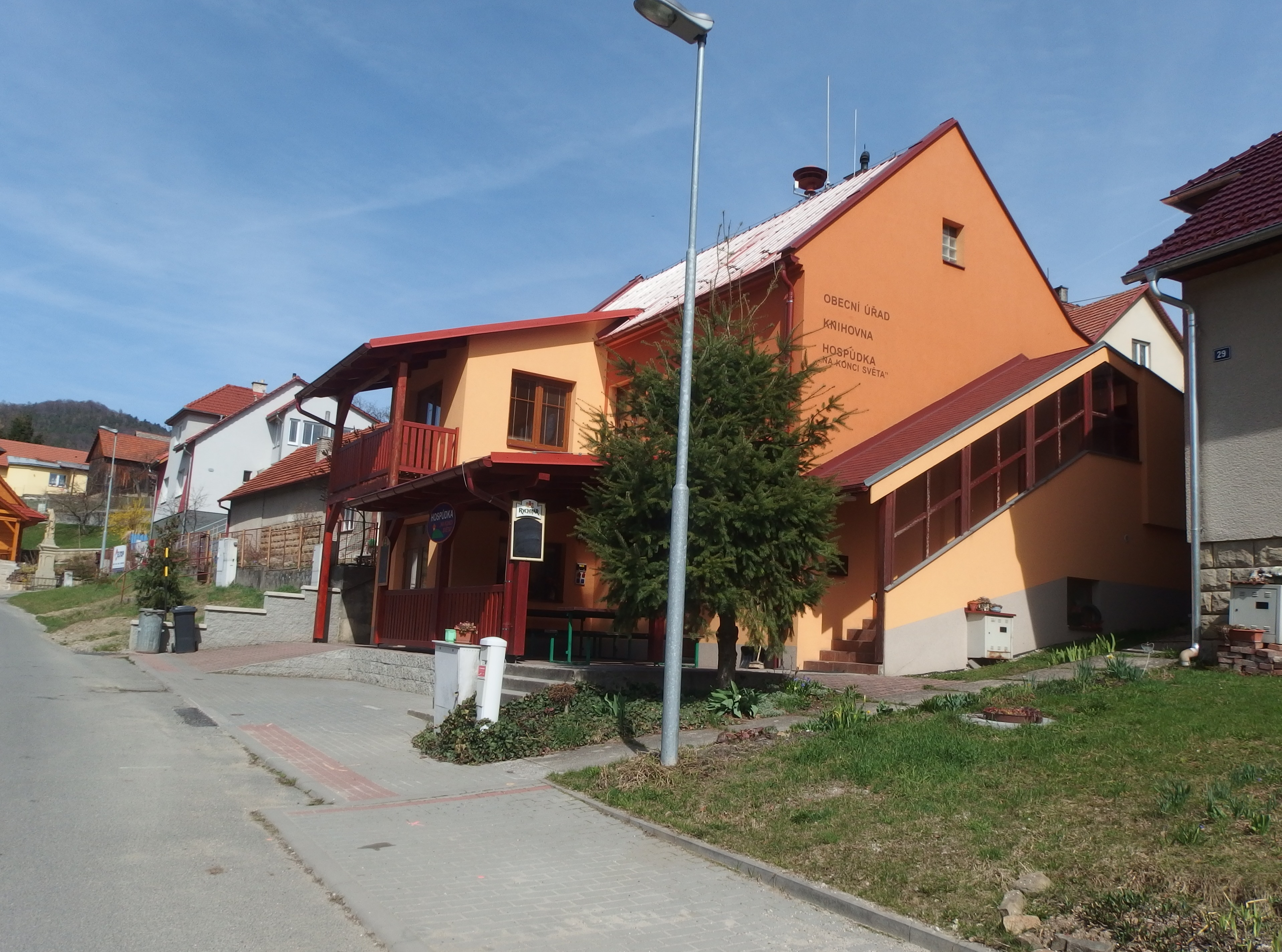 Podhradí, Zlín District, Czechia.